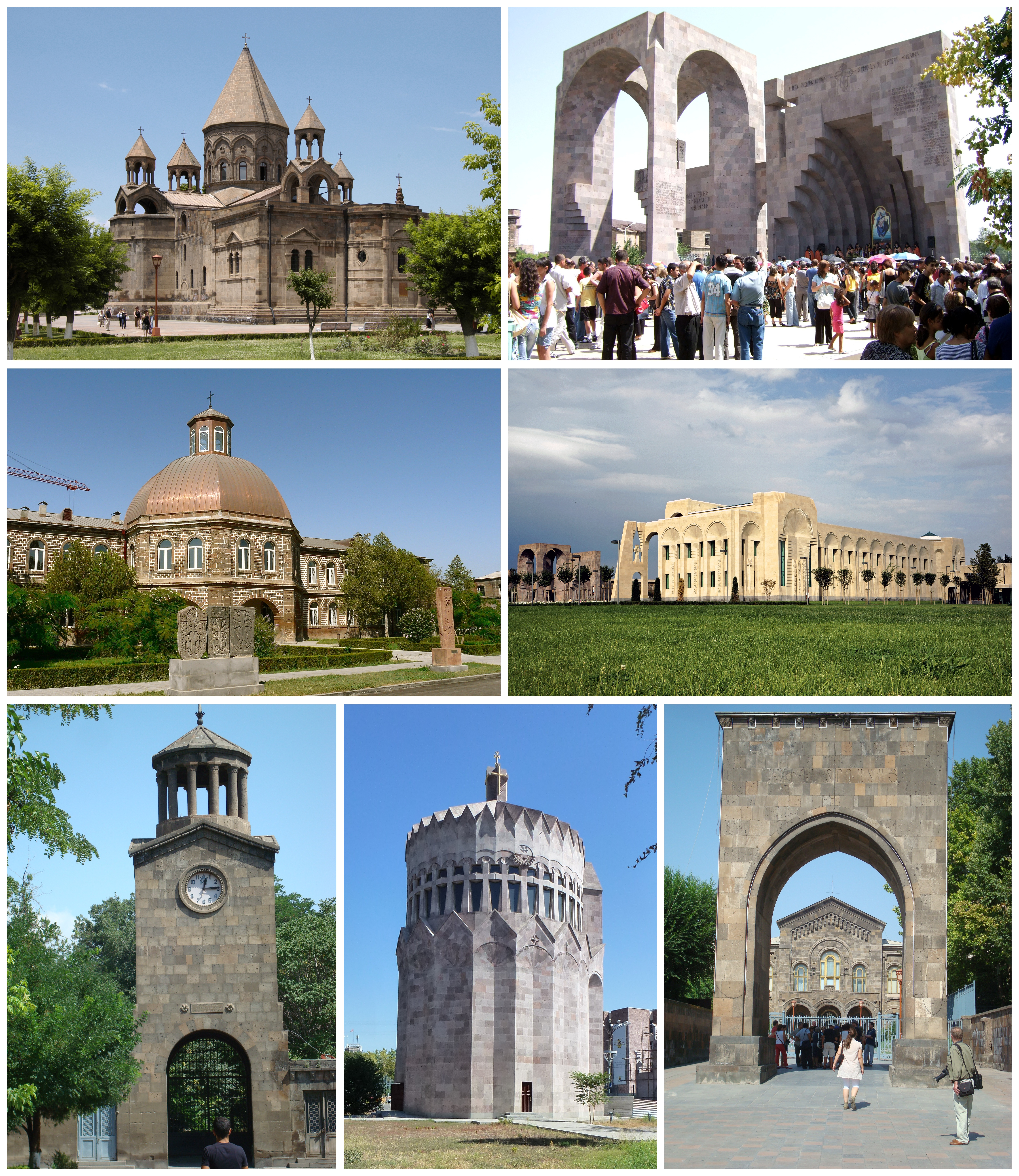 Mother See of Holy Etchmiadzin Մայր Աթոռ Սուրբ Էջմիածին